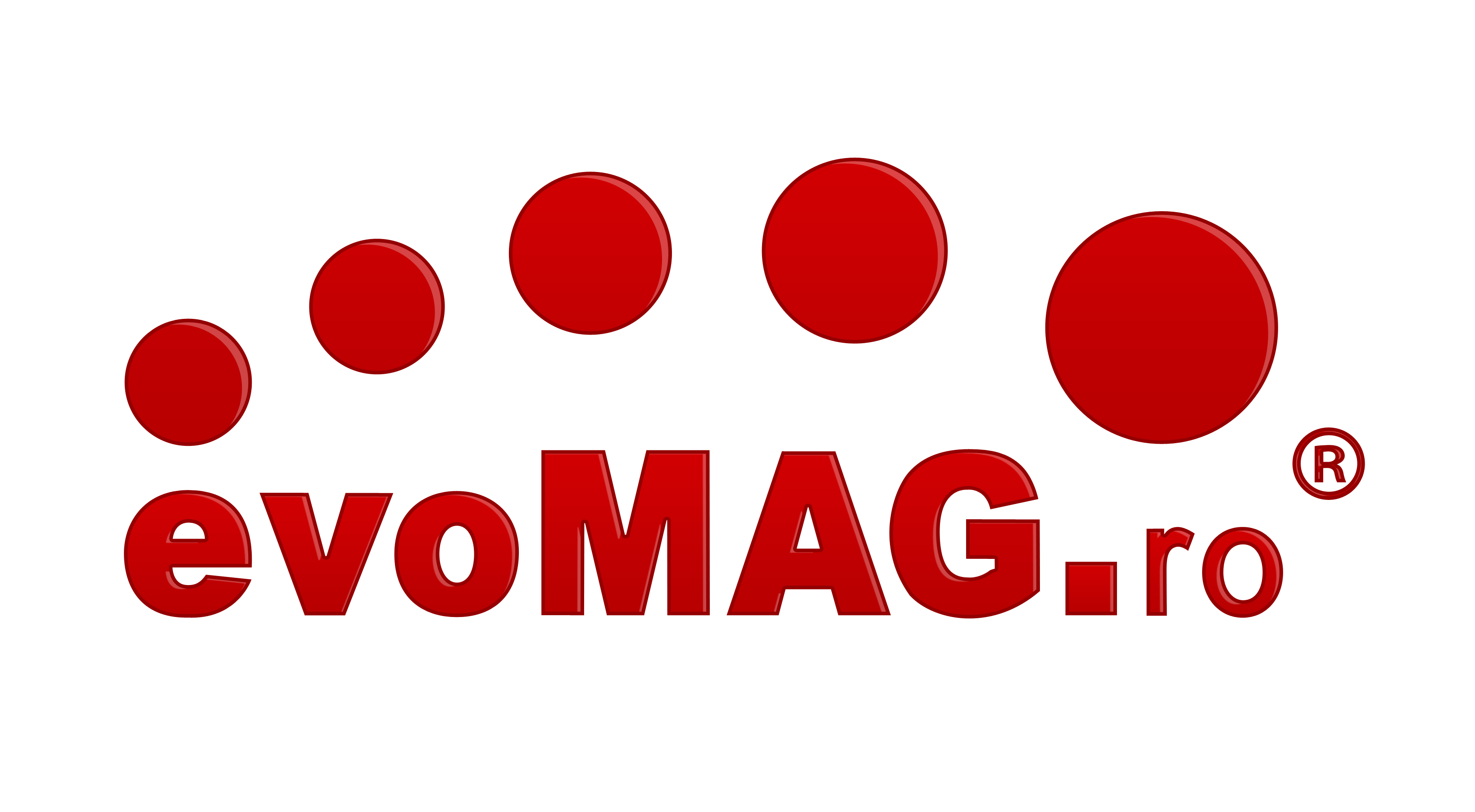 Logo of Romanian online shop evoMAG.roRomână: evoMAG